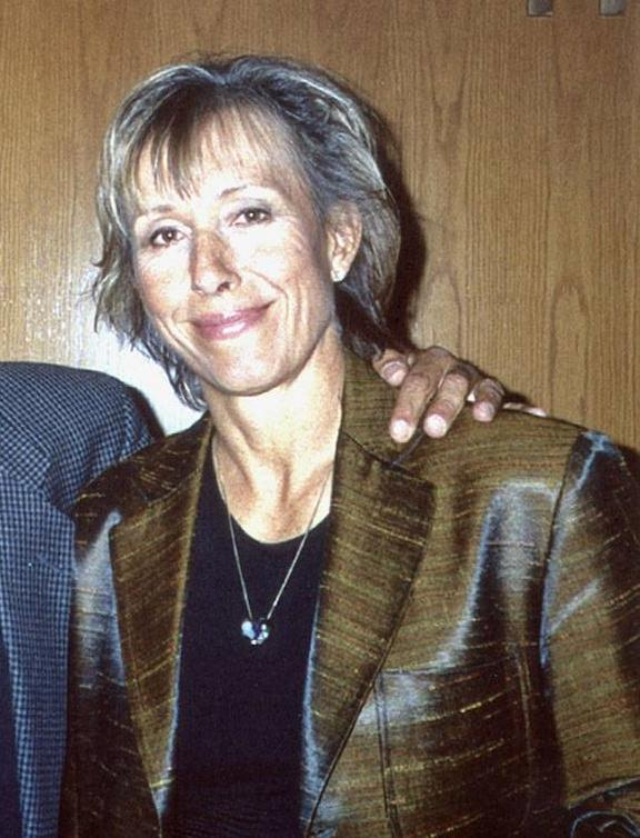 Martina Navratilova at 2006 Lambda Legal Awards